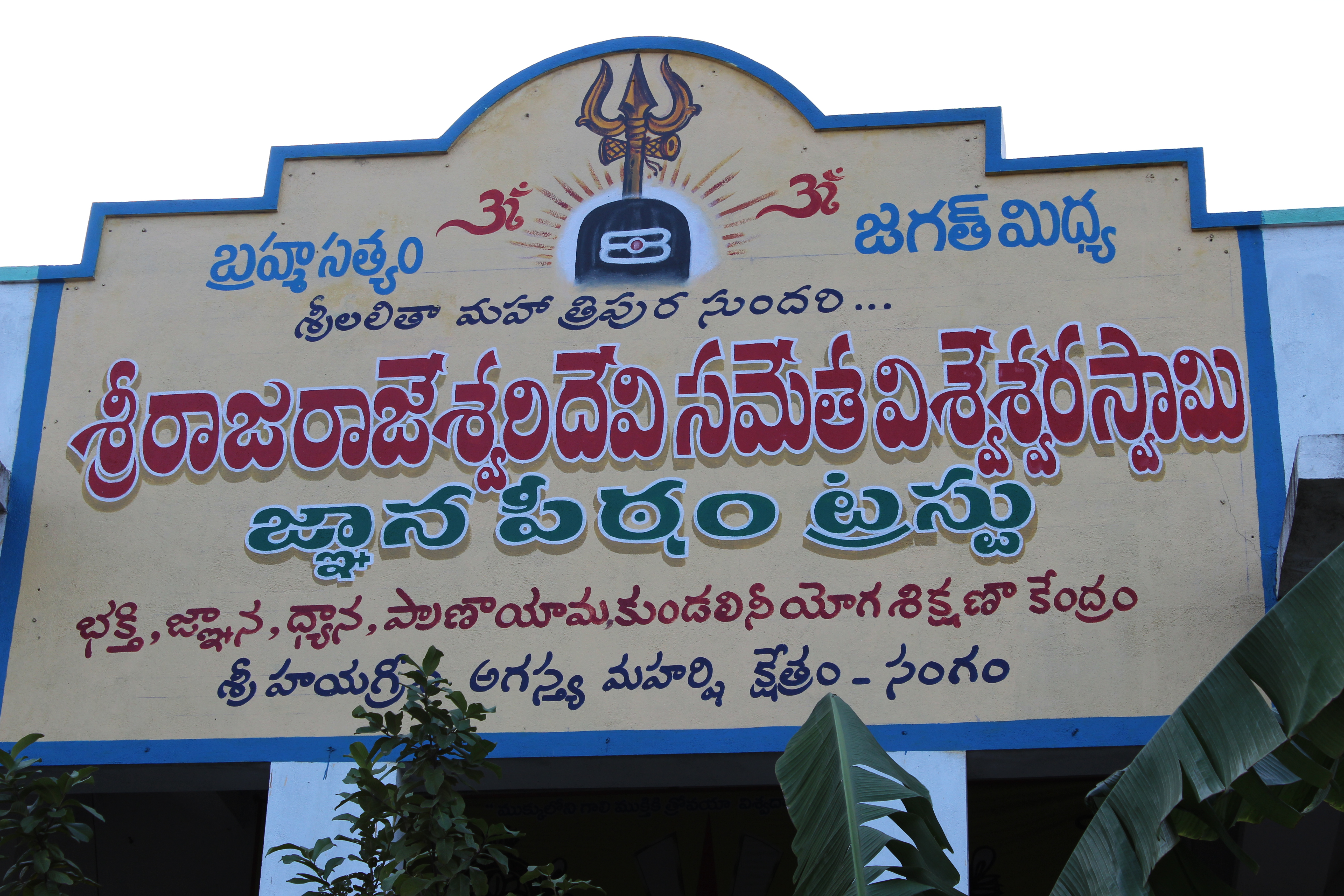 sangam temples